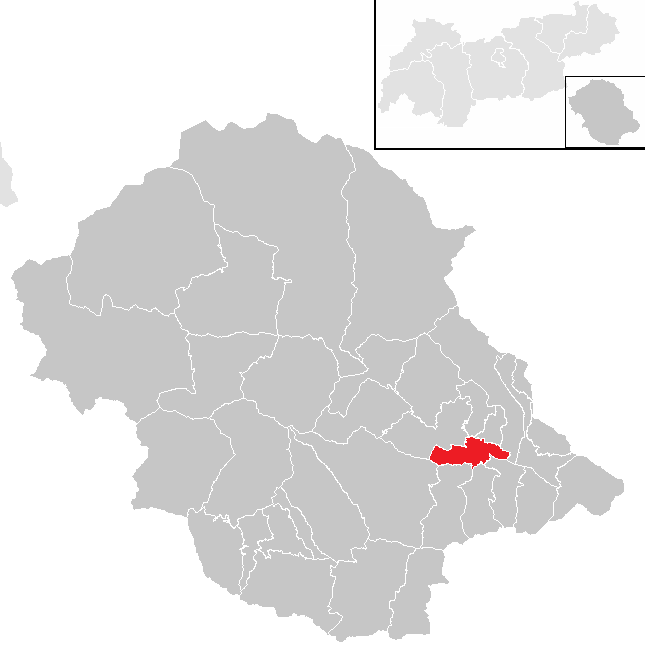 District Lienz